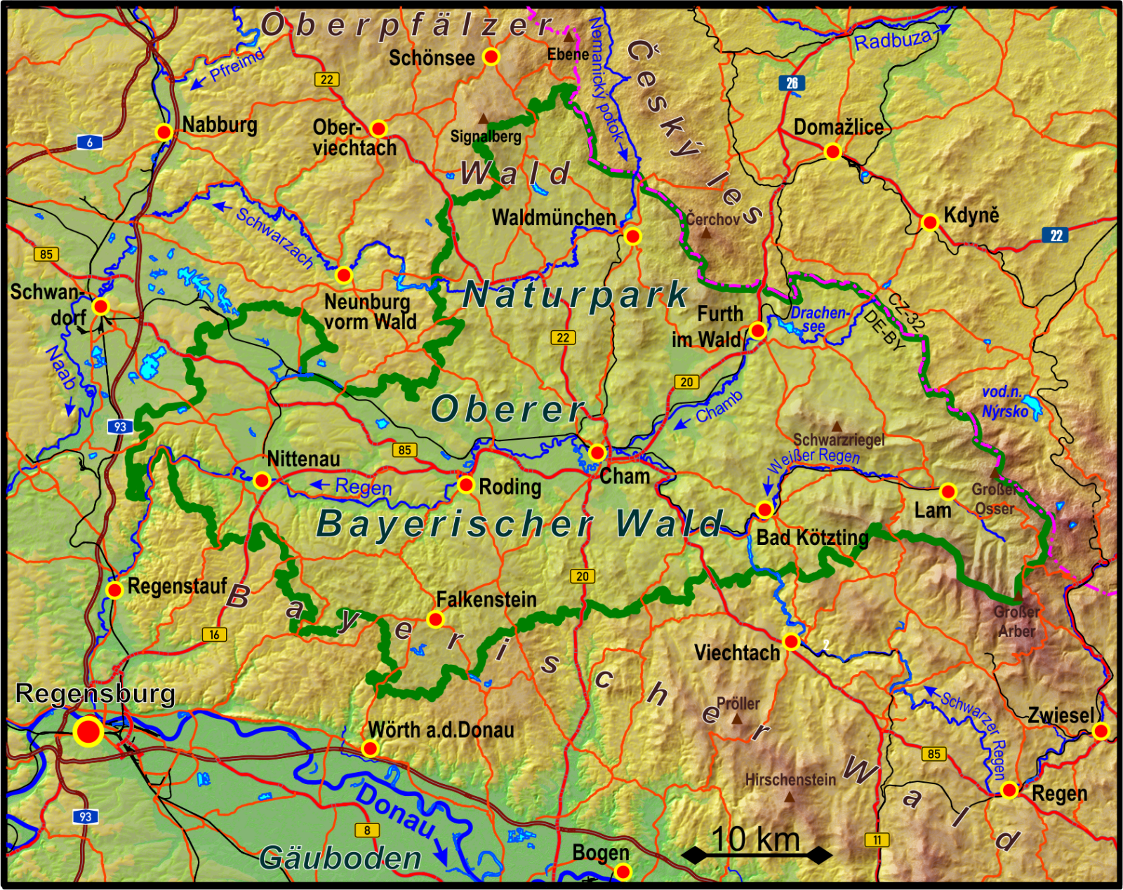 Map of the position and topography of the Naturpark Oberer Bayerischer Wald (emphasized in green)